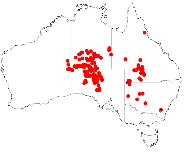 Acacia calcicola Occurrence data from Australasia Virtual Herbarium downloaded from on 8 December 2018